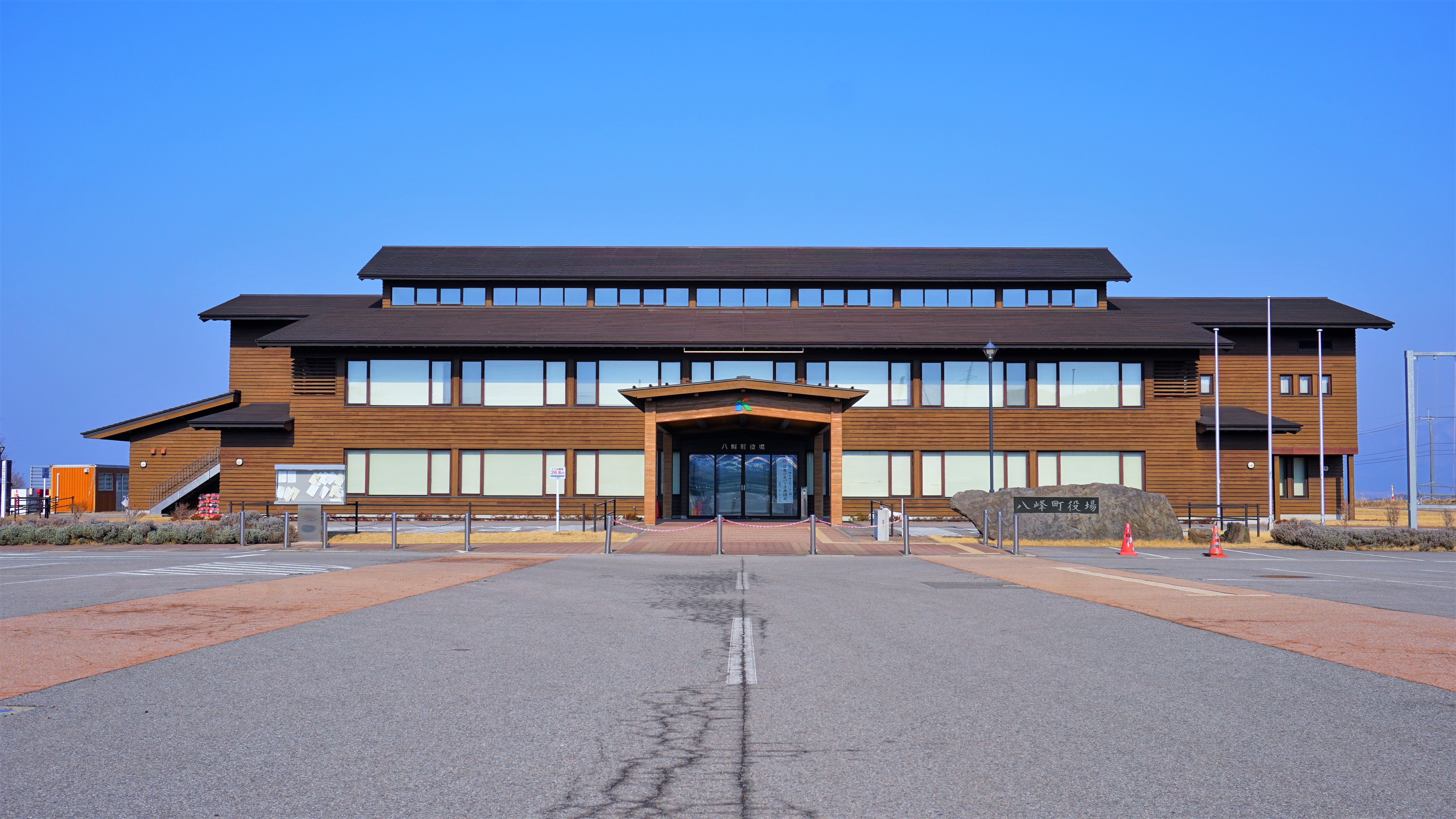 Happo Town Office in Akita Prefecture, Japan